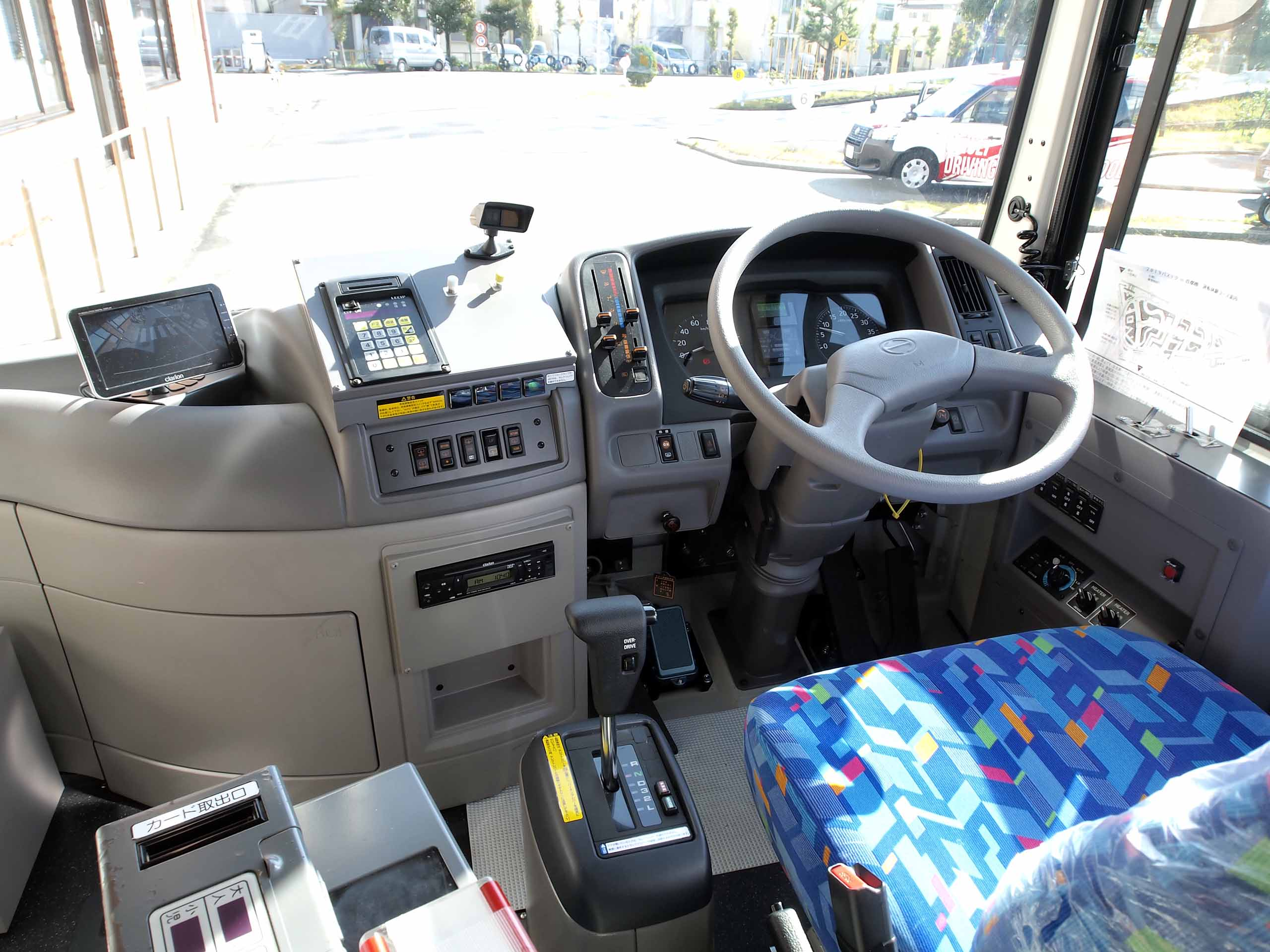 Cockpit of Hino Poncho 2017 Model: 2DG-HX9J series.